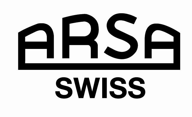 ARSA is a Trademark of Auguste Reymond SA, Tramelan